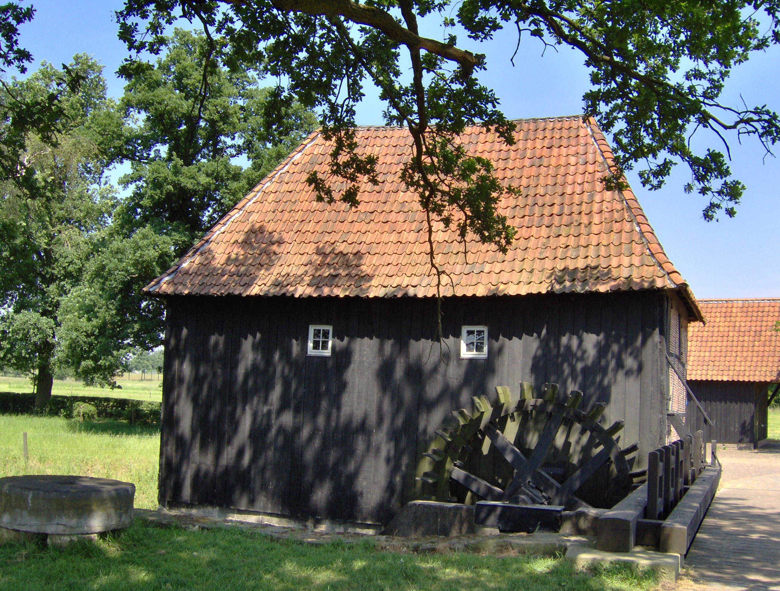 The water mill Oldemeule Location: The hamlet of Oele in the municipality of Hengelo, Netherlands